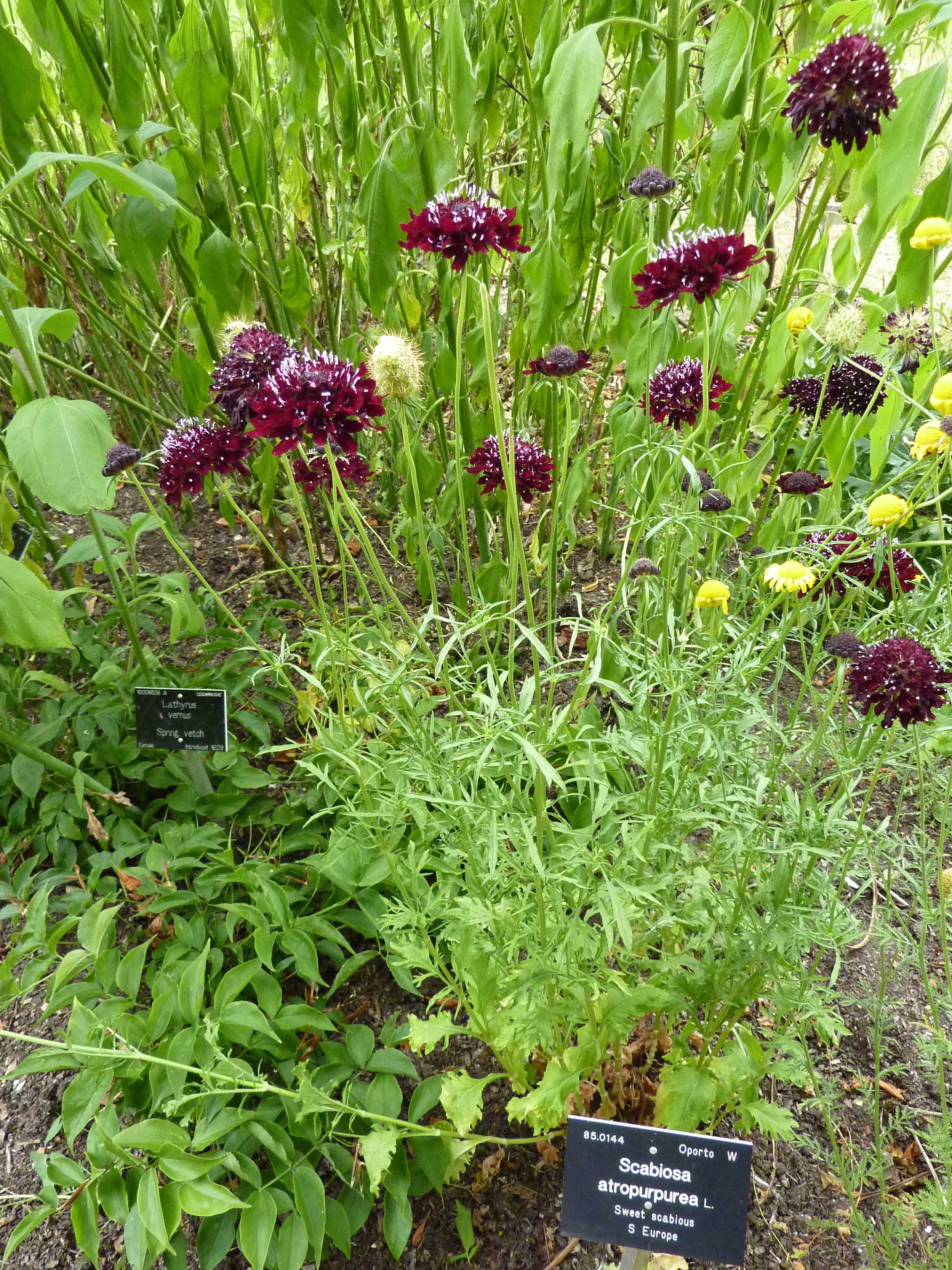 Taken in the Cambridge University Botanic Garden